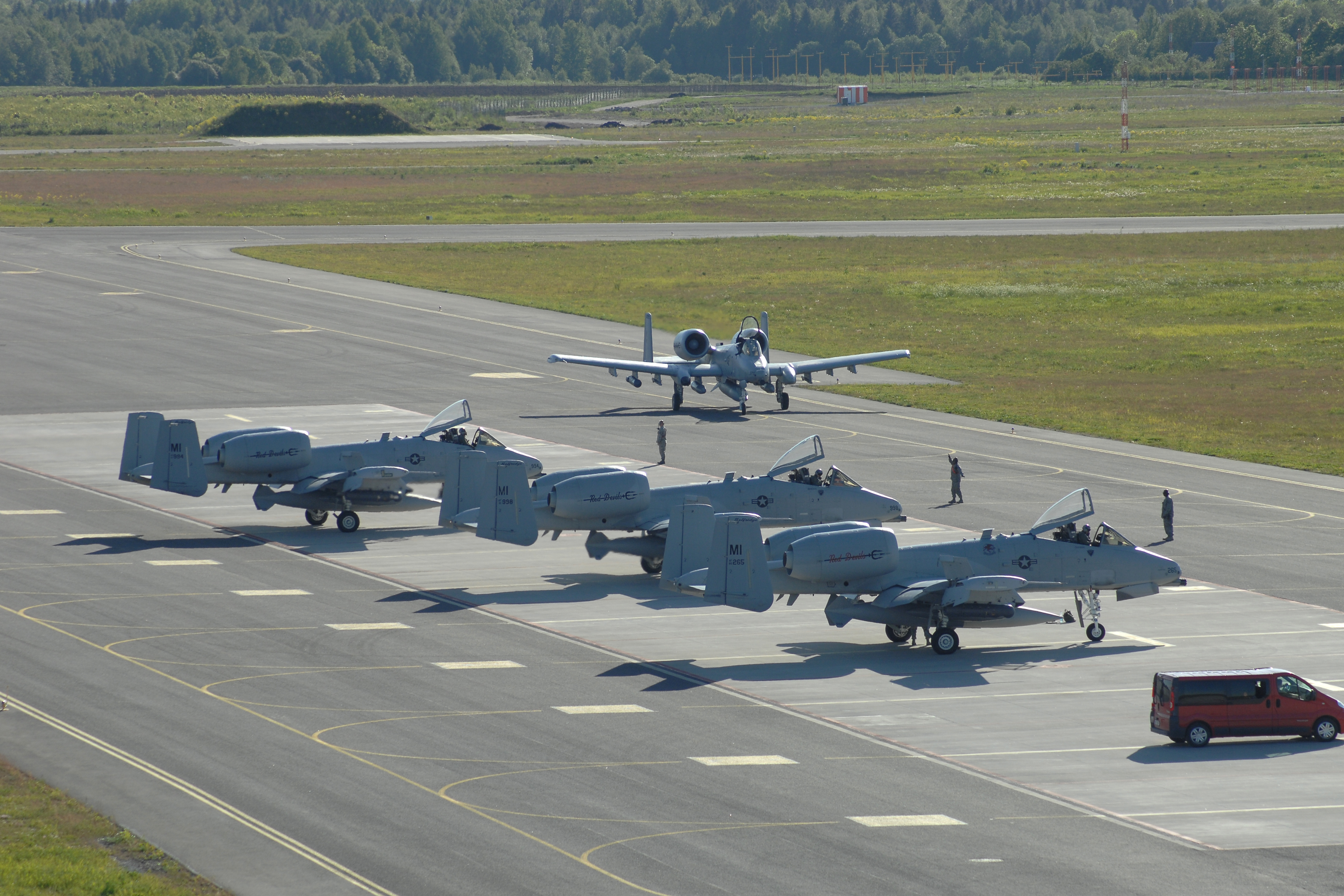 The final U.S. Air Force A-10 Thunderbolt II aircraft of a four-ship formation taxies in at Amari Air Base, Estonia, June 8, 2012. The aircraft, flown by the 107th Fighter Squadron, Michigan Air National Guard, are believed to be the first A-10s to ever land in Estonia. The aircraft and their Airmen were in Estonia to participate in Saber Strike 2012, a multi-national exercise based in Estonia and Latvia. (National Guard photo by SSgt. Rachel Barton)